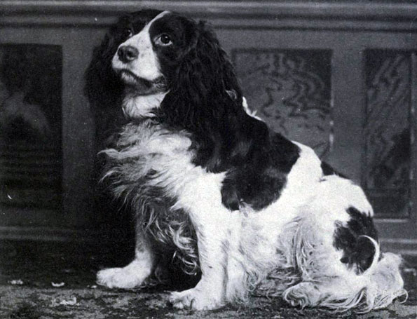 A photograph of Dash II, Norfolk Spaniel from the late 19th century. Published in The Dog Book by James Watson on page 265.